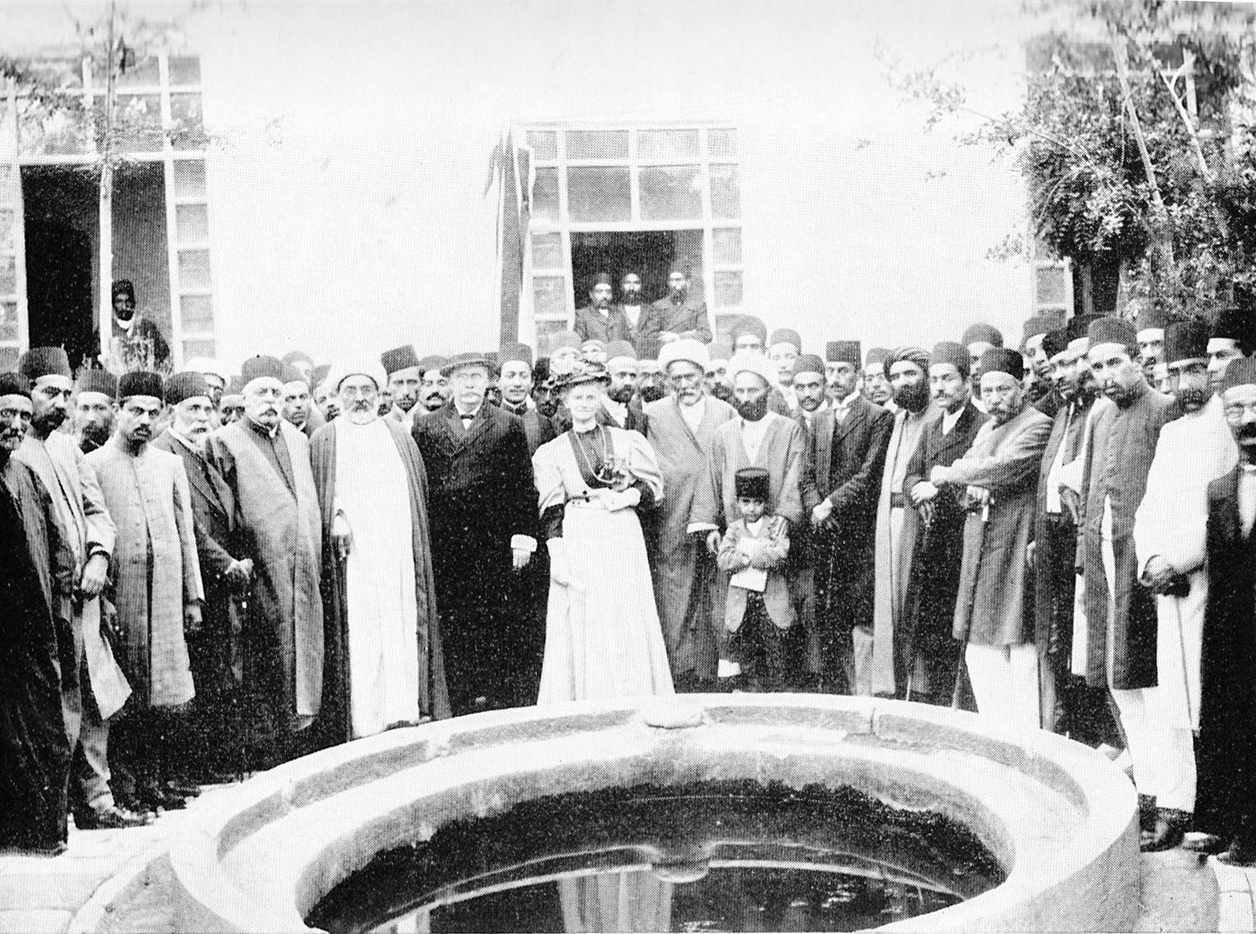 A gathering at the Democratic Club at Tehran, 1909. United States ambassador to Persia Charles W. Russell can be seen standing in the middle with his wife Lelia James Mosby (1849-1928), surrounded by clergymen and government officials.